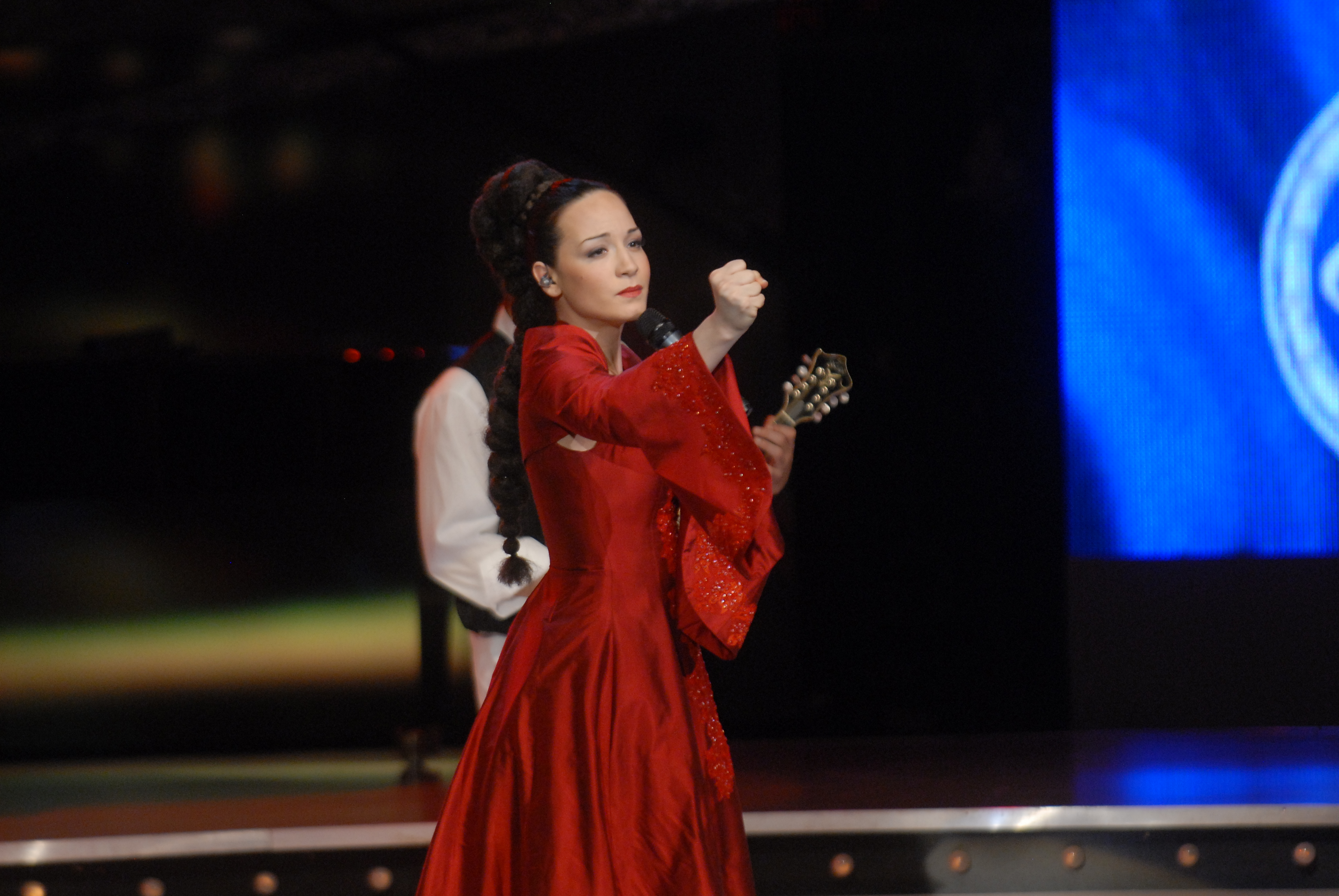 Jelena Tomašević (Eurovision 2008,*Serbian entry:"Oro"